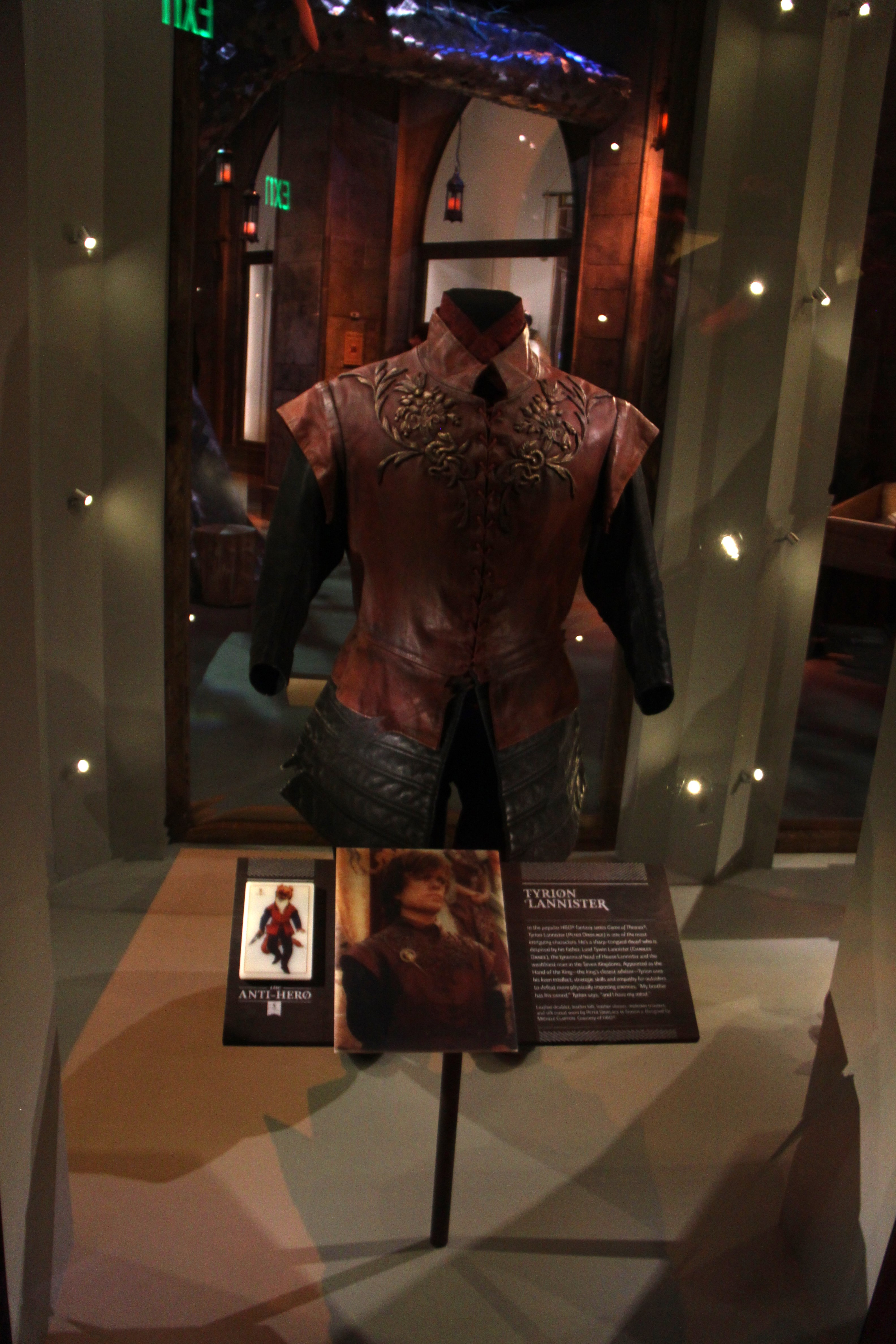 displayed at Fantasy: Worlds of Myth and Magic, Experience Music Project/Science Fiction Hall of Fame, Seattle.